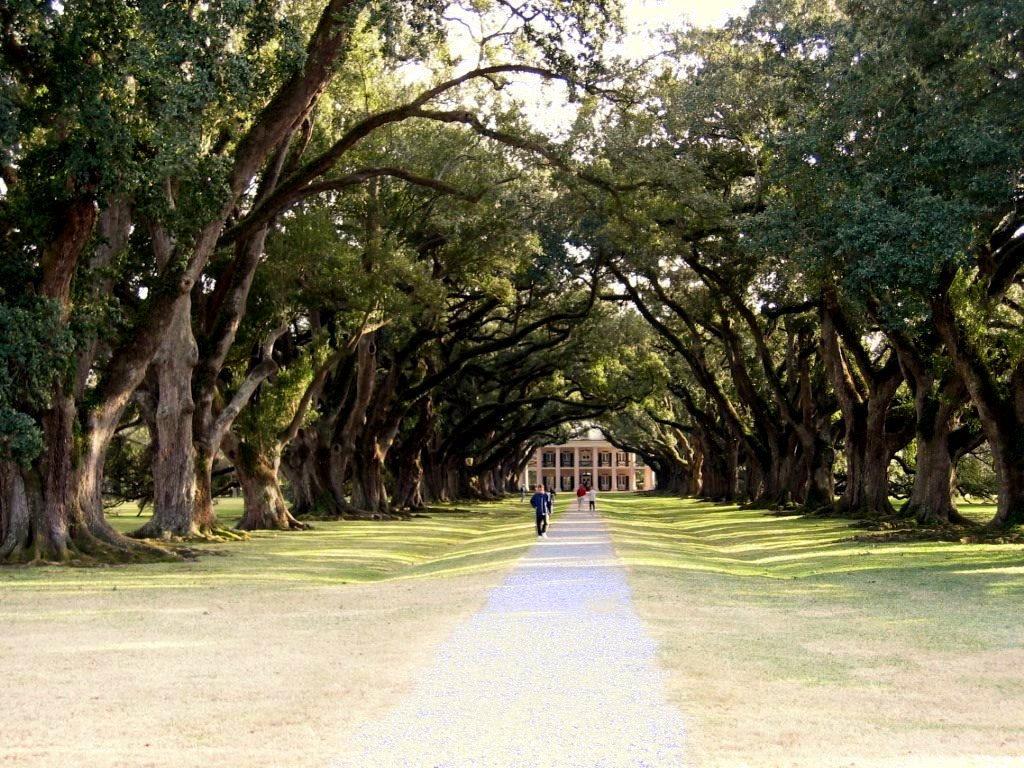 Photograph of Oak Alley Plantation in Vacherie, Louisiana, United States of America from the direction of the Mississippi River taken by Rolf Müller on December 16 2003.